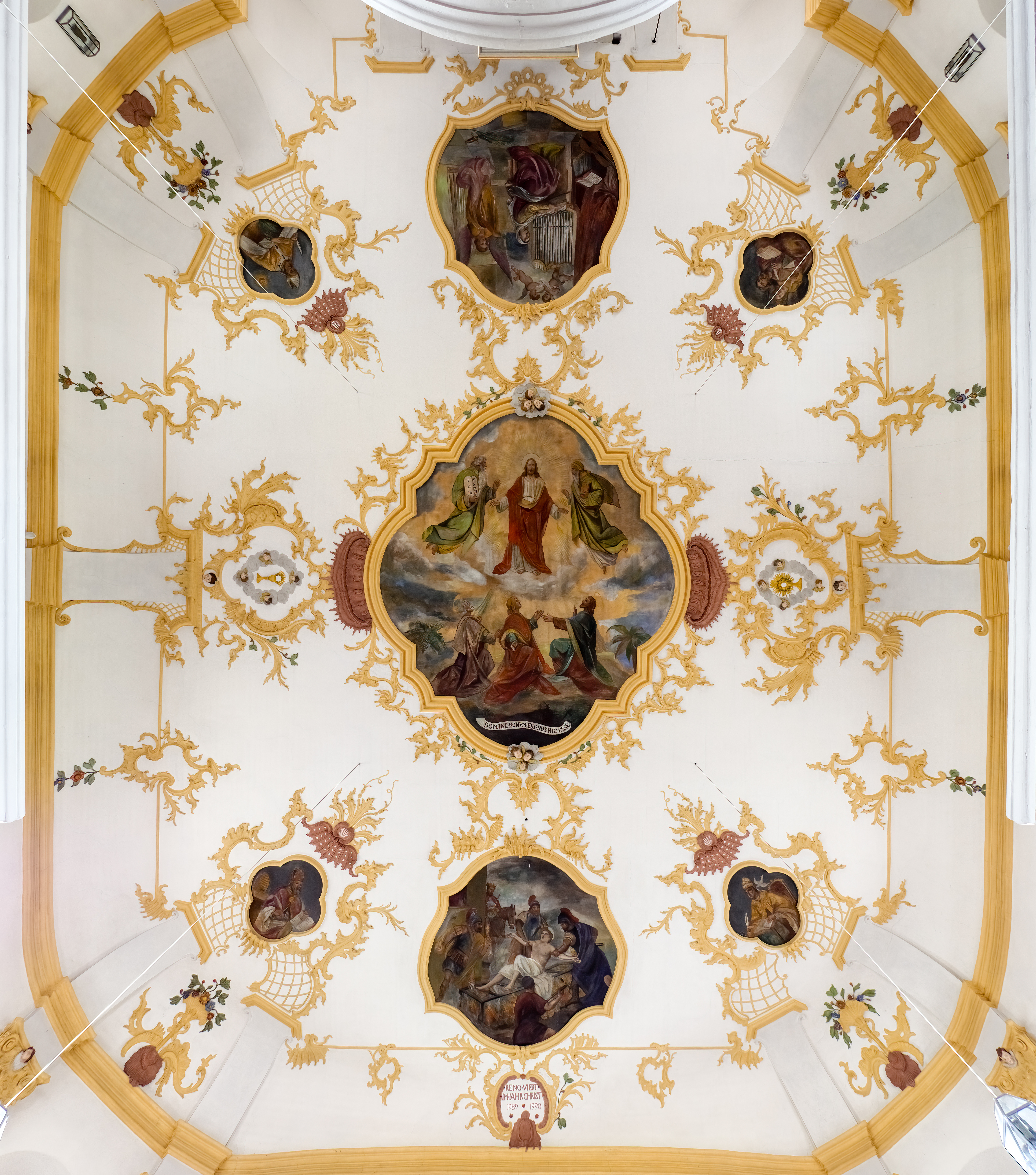 Ceiling of the Catholic parish church St. Laurentius in Lettenreuth